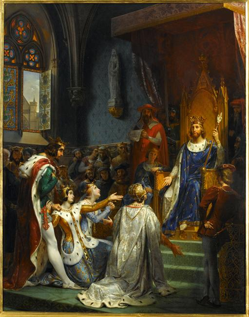 Having assassinated on 8 January 1354 the king of France's favorite, Charles de la Cerda, constable of France, the King of Navarre Charles II came to ask for forgiveness of King John II the Good, while the queens Jeanne of Evreux (aunt of the culprit) and Blanche of Navarre (his sister) intercede for him.